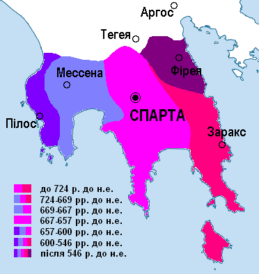 Territory of Spartan State (743-546 BC)